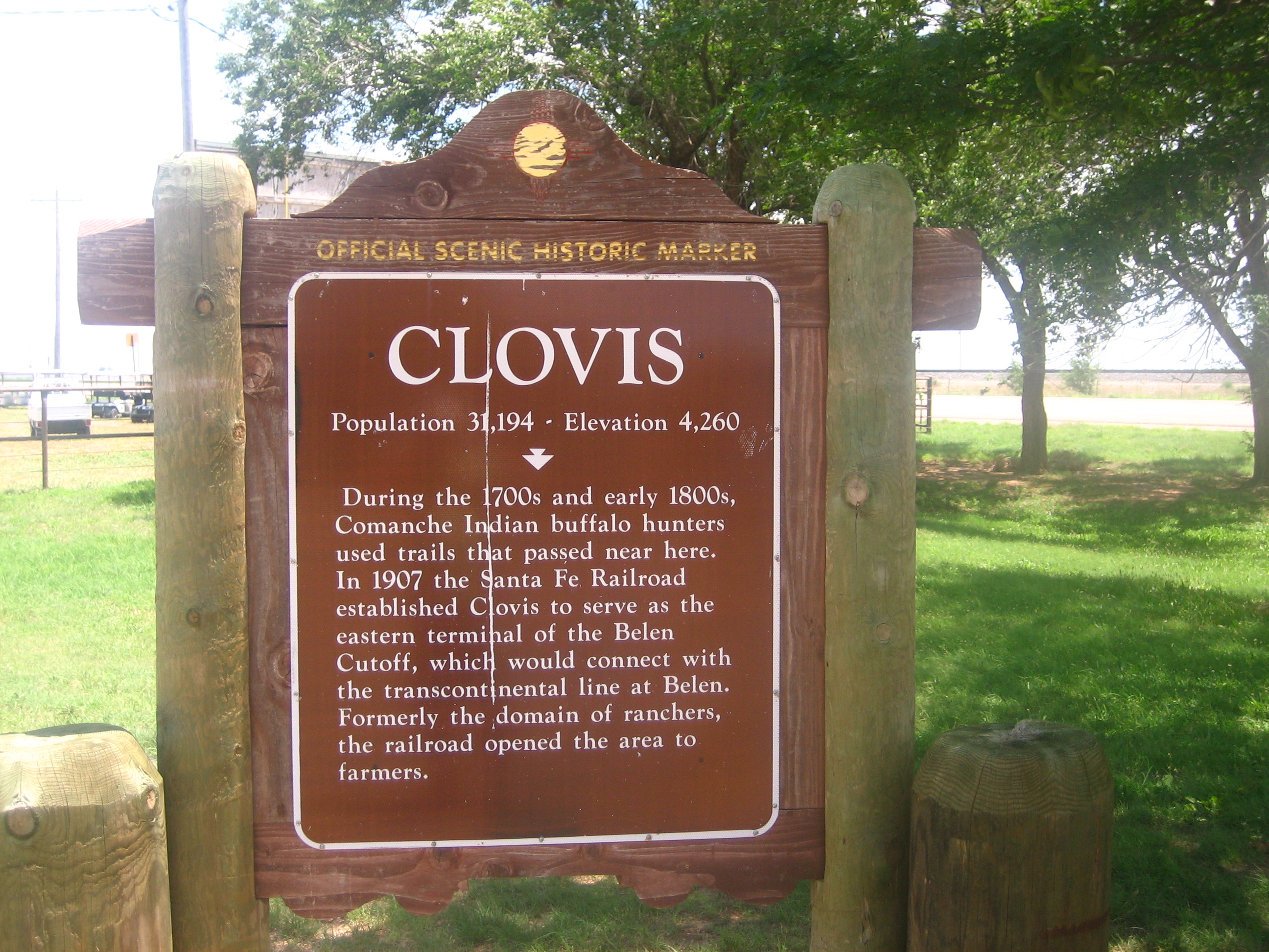 I took photo on July 11, 2008.Billy Hathorn (talk) 04:24, 22 July 2008 (UTC)